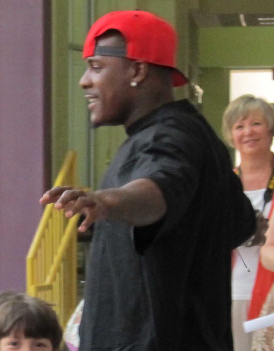 Ahmad Carroll, NFL free agent (right) leads Georgia youth in a game of imitating birds. Carroll came to the Norcross YMCA on June 2 with a group of NFL Players in cooperation with FEMA to promote disaster preparedness.